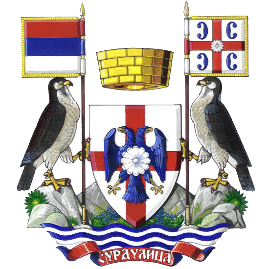 Greater coat of arms of Surdulica